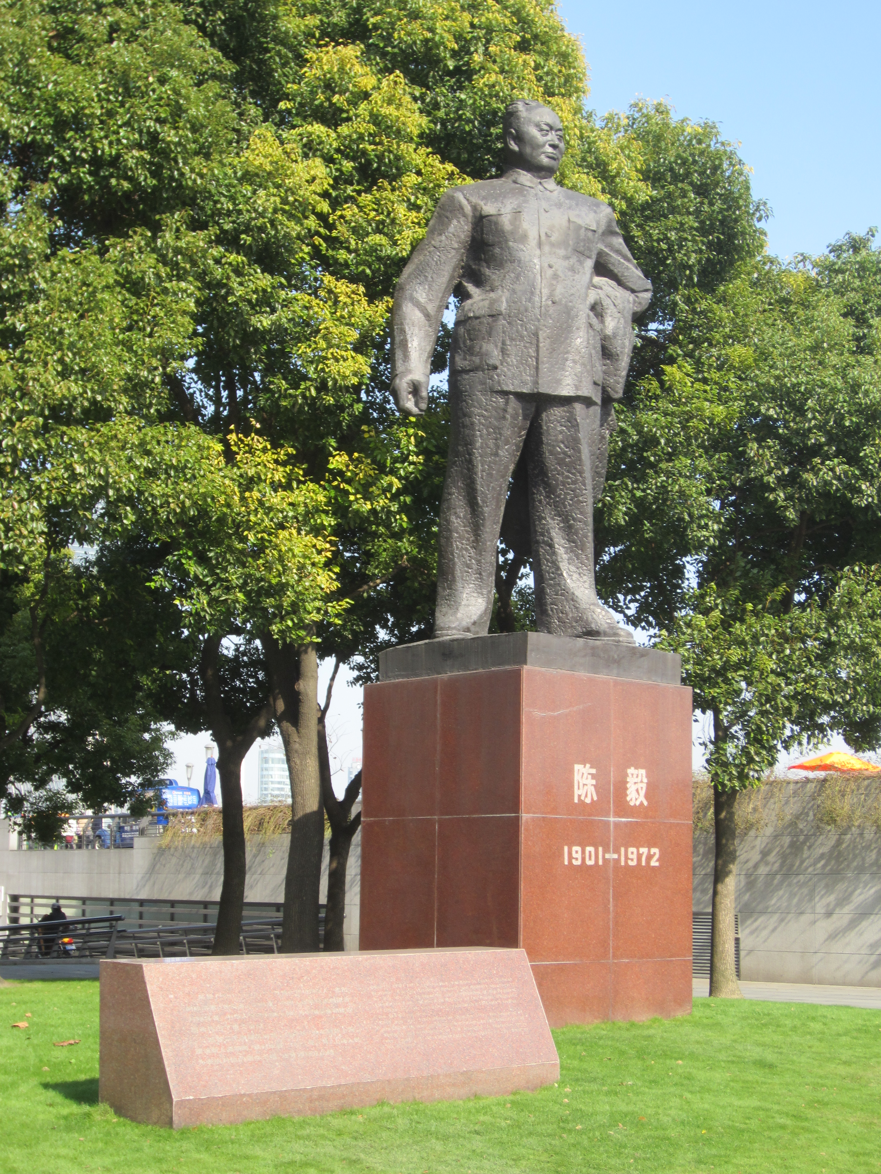 The Bund, Shanghai, China (December 2015)